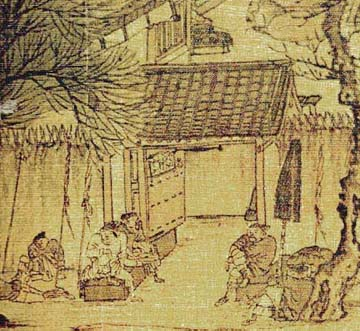 Close-up detail of the Chinese cityscape handscroll Along the River During Qingming Festival, ink and colors on silk, 25.5 × 525 cm.